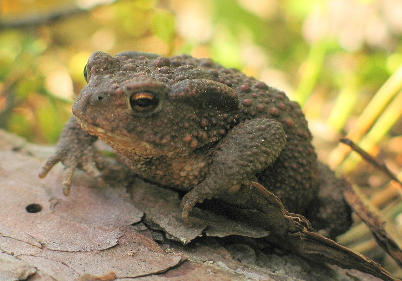 Bufo bufo; taken in Poland